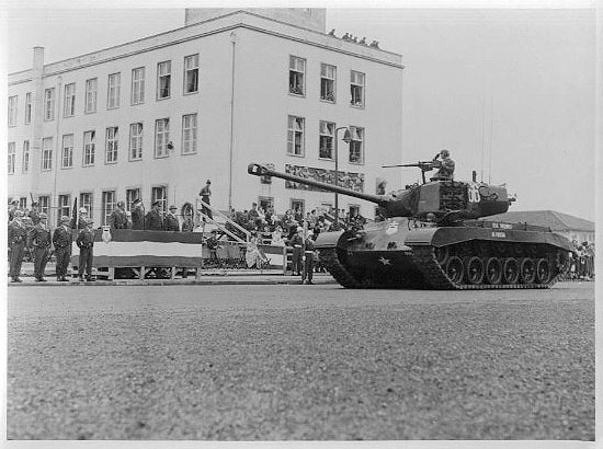 Tanks of the Heavy Tank Company pass in review during a Regimental review held September 8, 1951, on the Ring Strasse in honor of General Lemuel Mathewson, US Commander in Berlin.